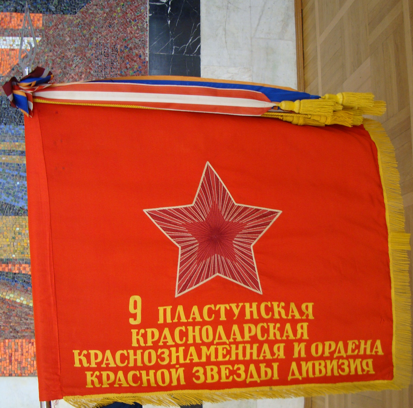 Flag of 9th Rifle Division (Kursk Infantry Division)